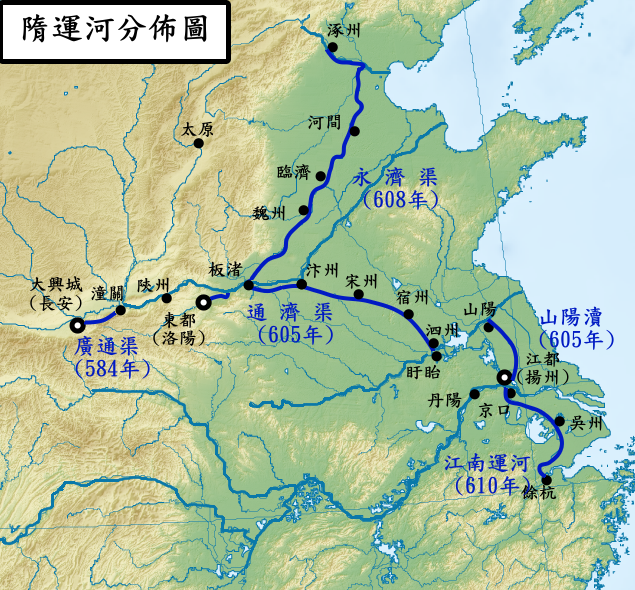 Distribution map of Sui Canal, i.e. oldest parts of the Grand Canal.